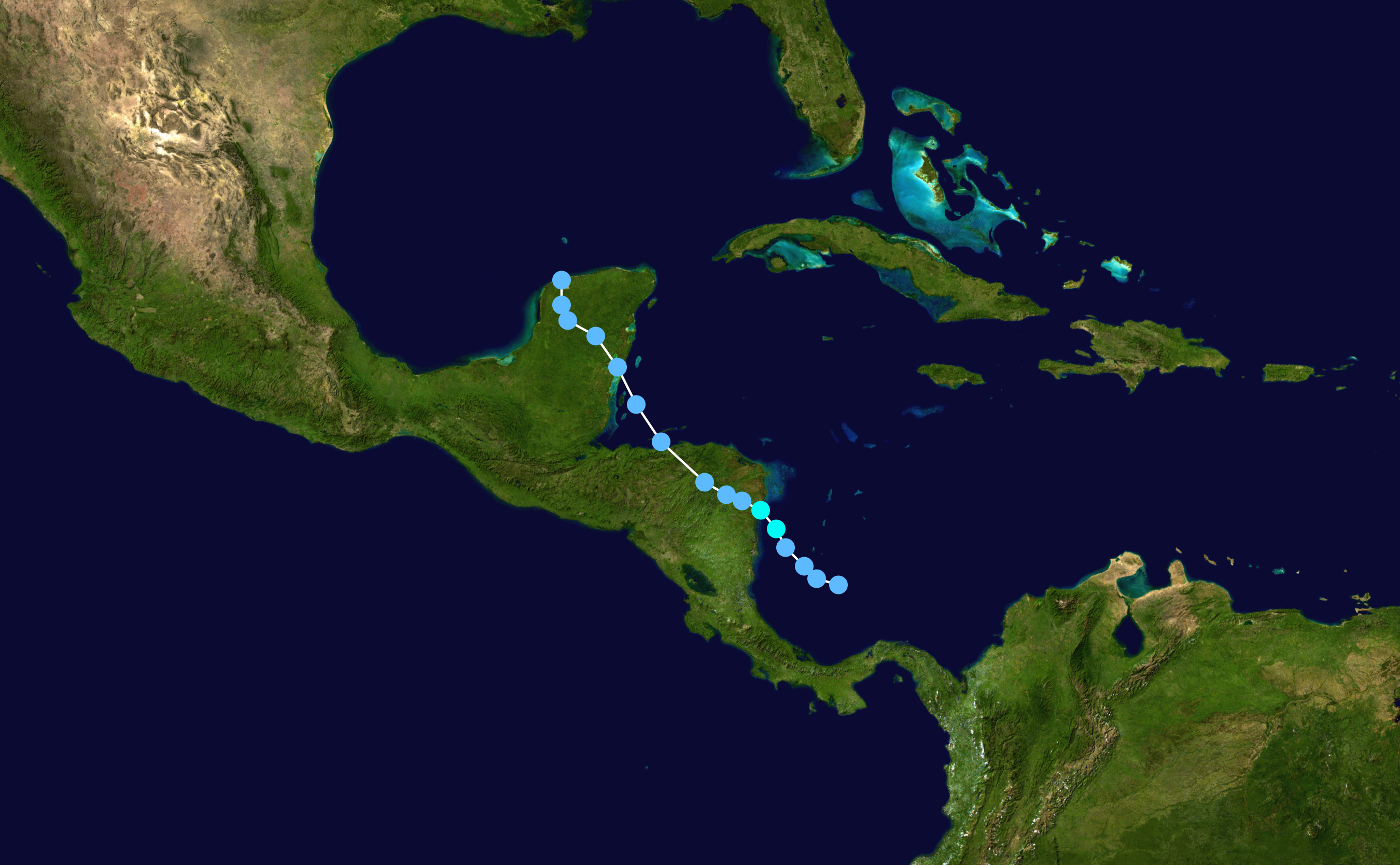 Track map of Tropical Storm Katrina of the 1999 Atlantic hurricane season. The points show the location of the storm at 6-hour intervals. The colour represents the storm's maximum sustained wind speeds as classified in the Saffir–Simpson scale (see below), and the shape of the data points represent the nature of the storm, according to the legend below. Saffir–Simpson scale Tropical depression≤38 mph≤62 km/h Category 3111–129 mph178–208 km/h Tropical storm39–73 mph63–118 km/h Category 4130–156 mph209–251 km/h Category 174–95 mph119–153 km/h Category 5≥157 mph≥252 km/h Category 296–110 mph154–177 km/h Unknown Storm type Tropical cyclone Subtropical cyclone Extratropical cyclone / Remnant low / Tropical disturbance / Monsoon depression